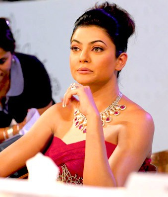 Sushmita Sen at the final of Femina Miss India 2009, judging the contest